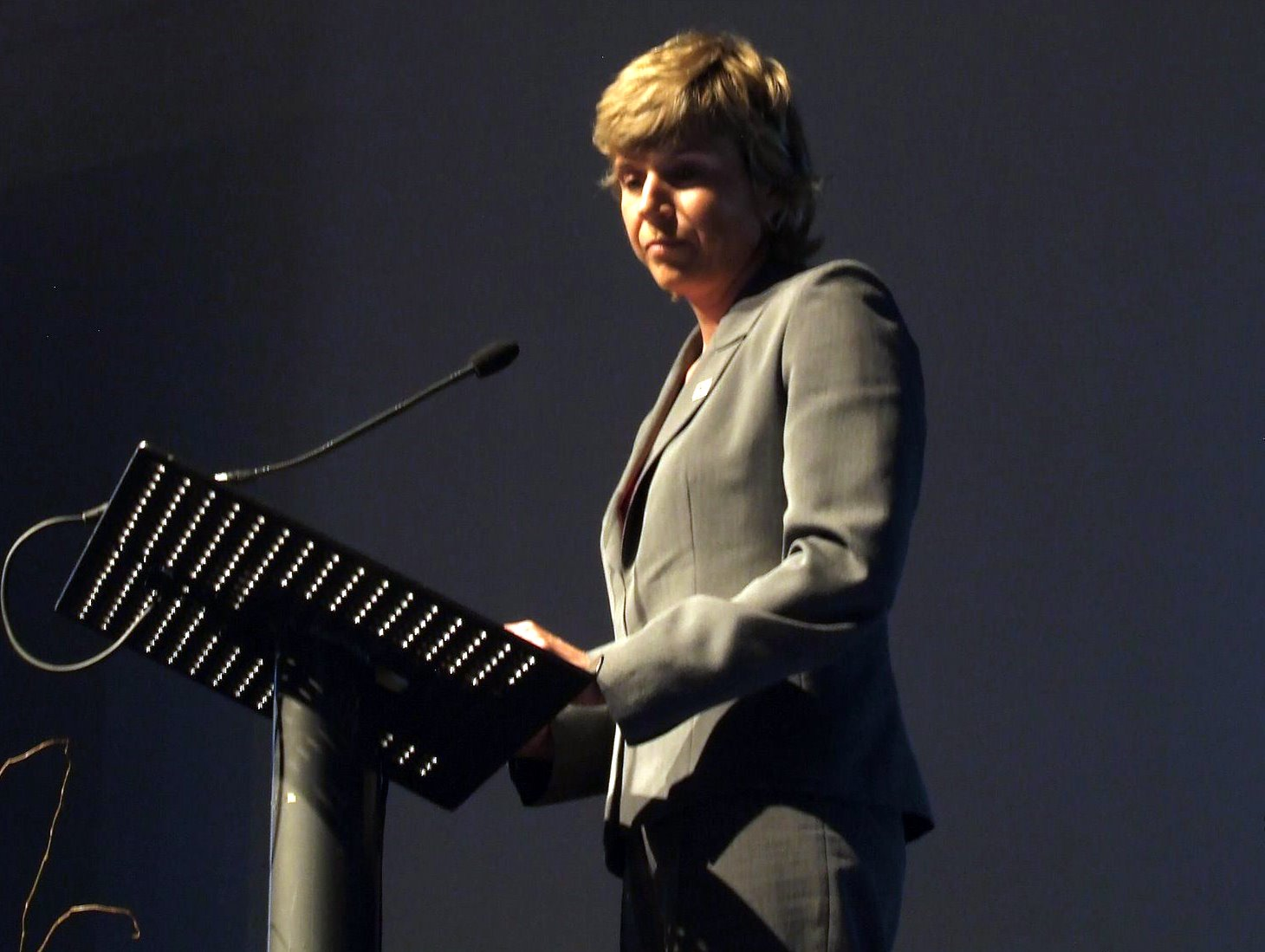 Kateřina Neumannov on FIS Congress 2008 in Cape Town in South Africa